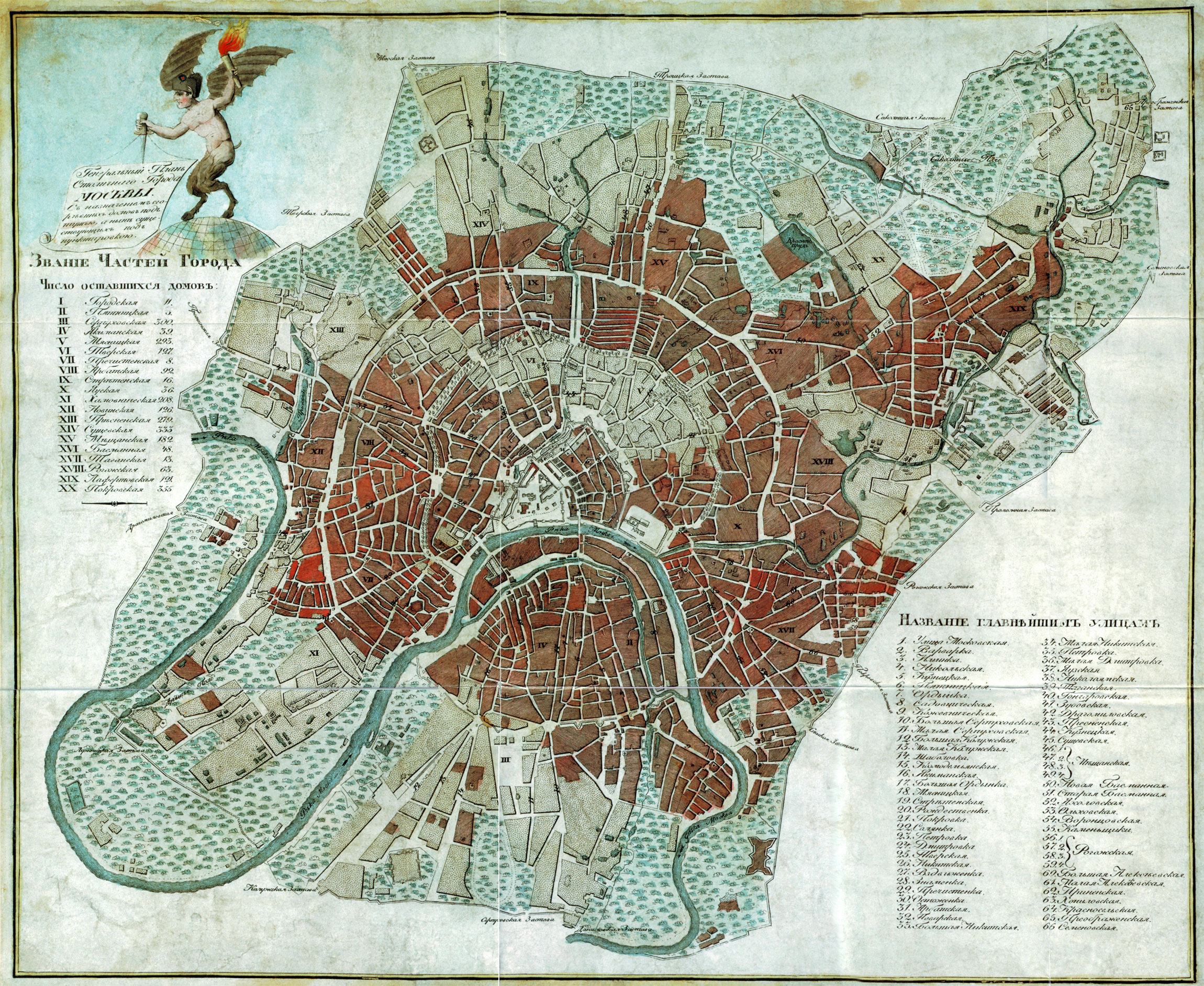 1813 map of Moscow showing the damage of Fire of Moscow (1812), in dark shade